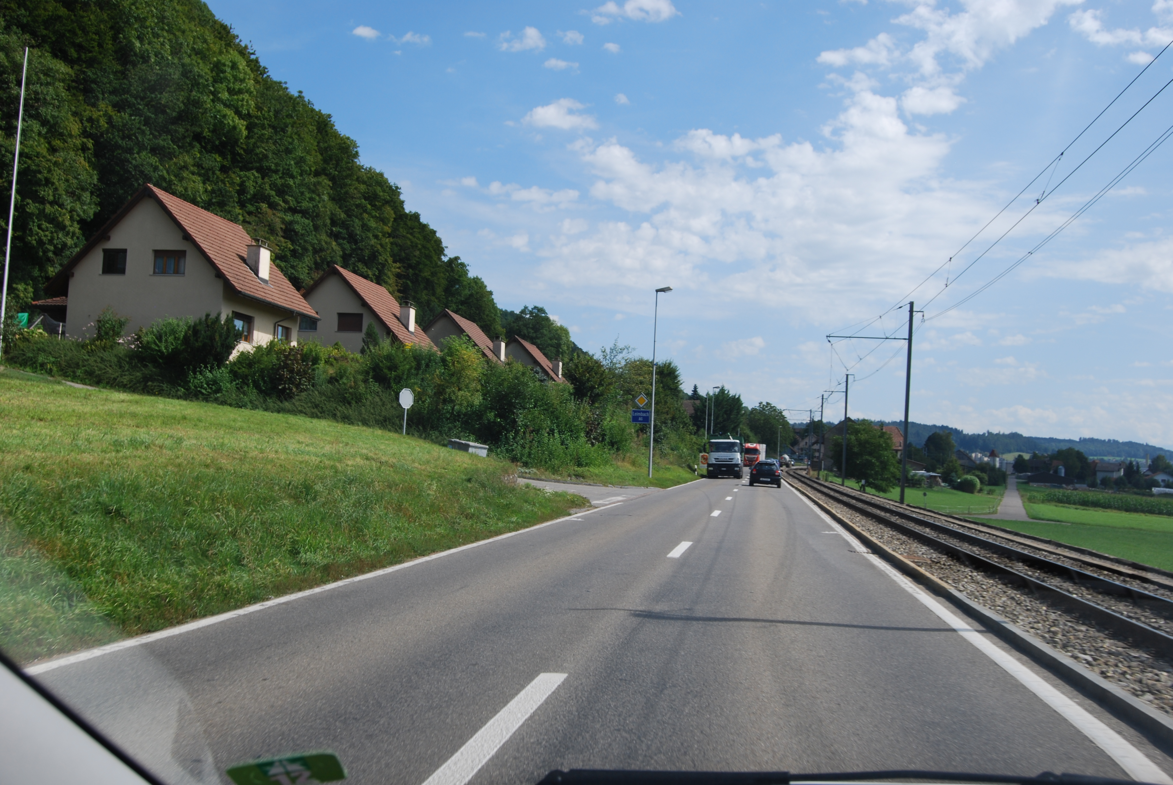 Leimbach, canton of Aargau, SwitzerlandEsperanto: Leimbach, Kantono Argovio, Svislando